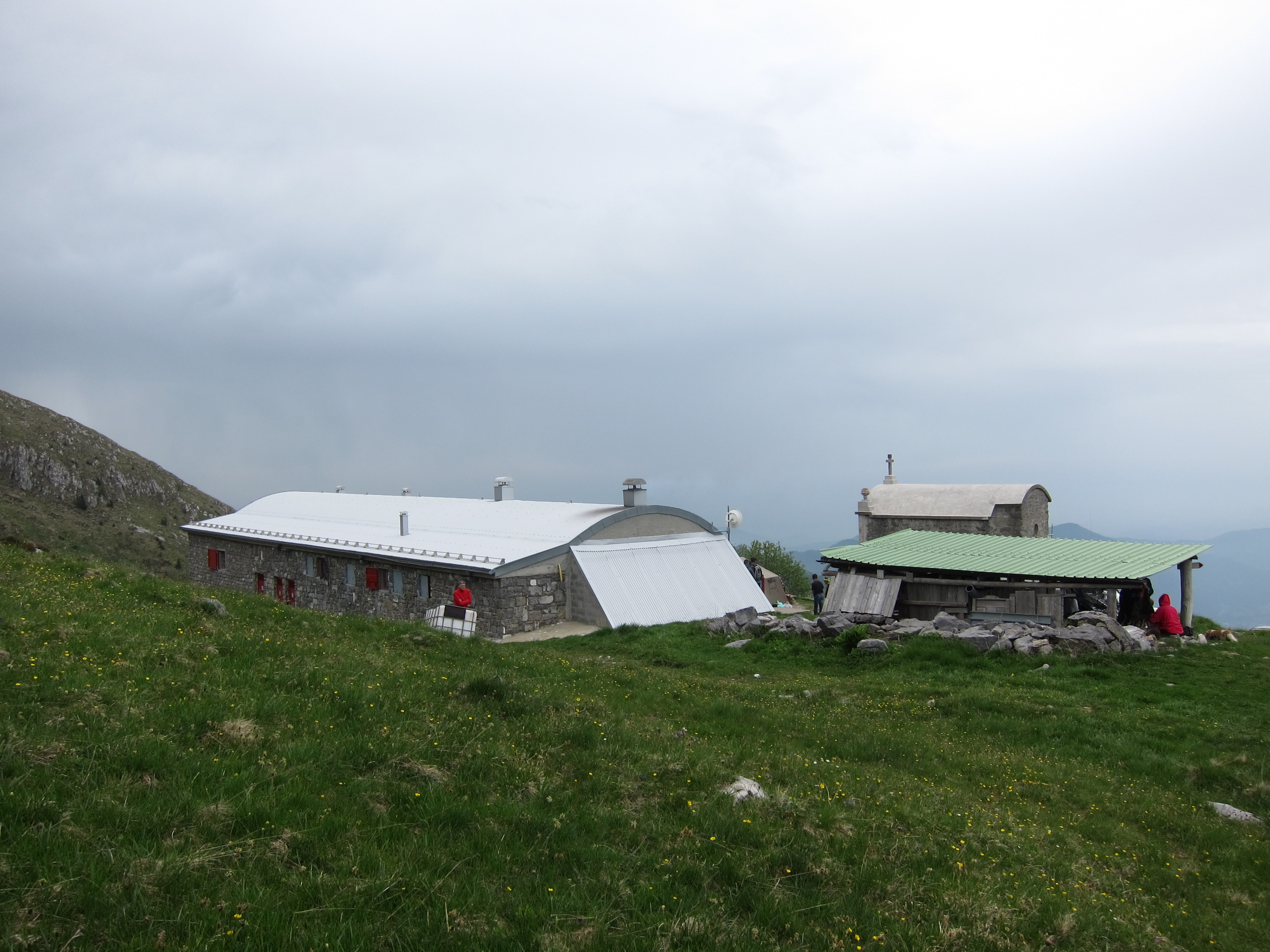 Buildings of the alpine refuge Rifugio Almici (1861 m.a.s.l.) on Monte Guglielmo. The mount is located in the province of Brescia in region Lombardy in Italy. Pic taken on June 9th 2019. 2019-06-09